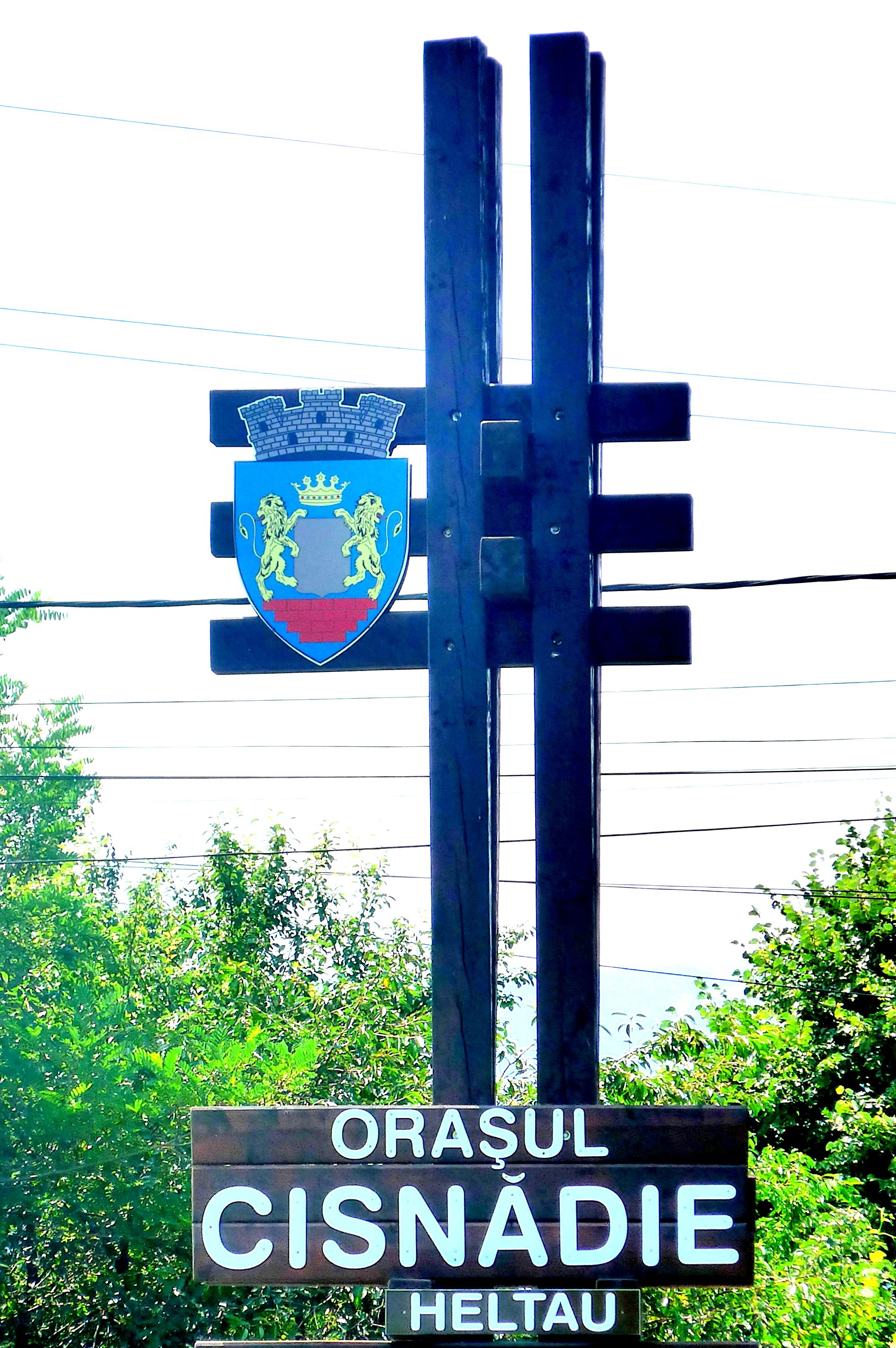 Bilingual town sign with the Transylvanian Saxon town crest of Cisnadie / Heltau (Romania)